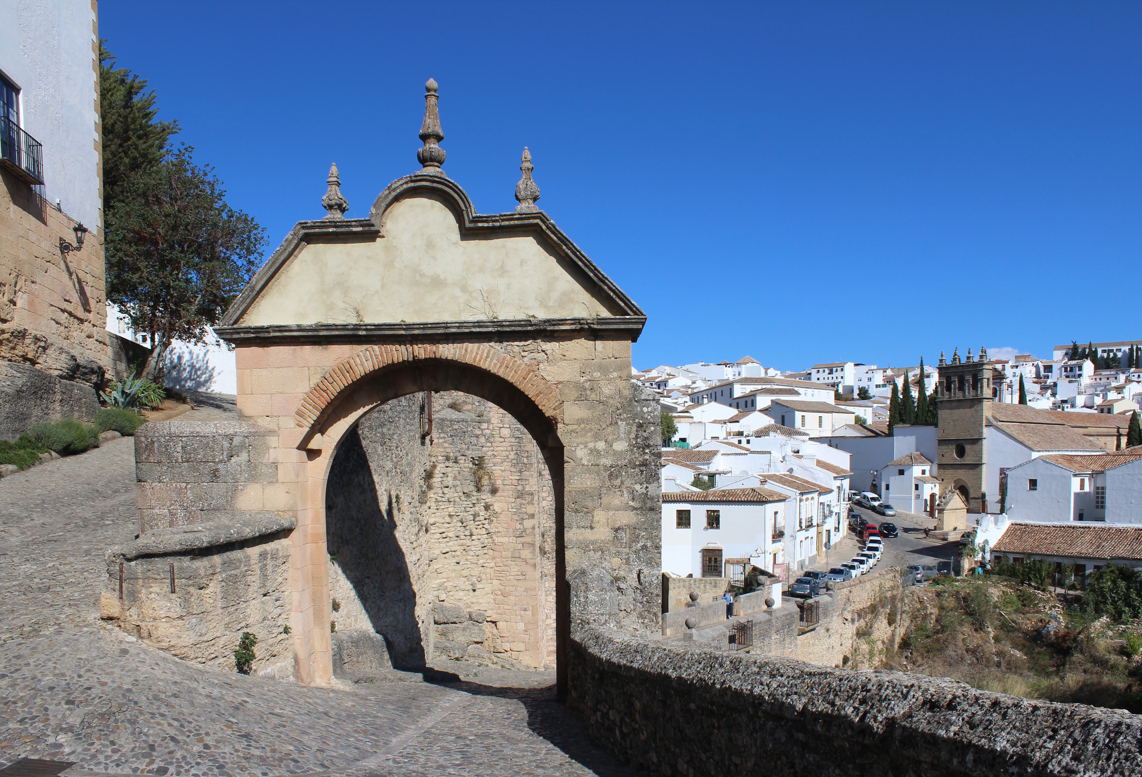 Puerta de Felipe V (Phillip V Gate), part of the Ronda town wall, built in 1742 to replace one that collapsed the previous year